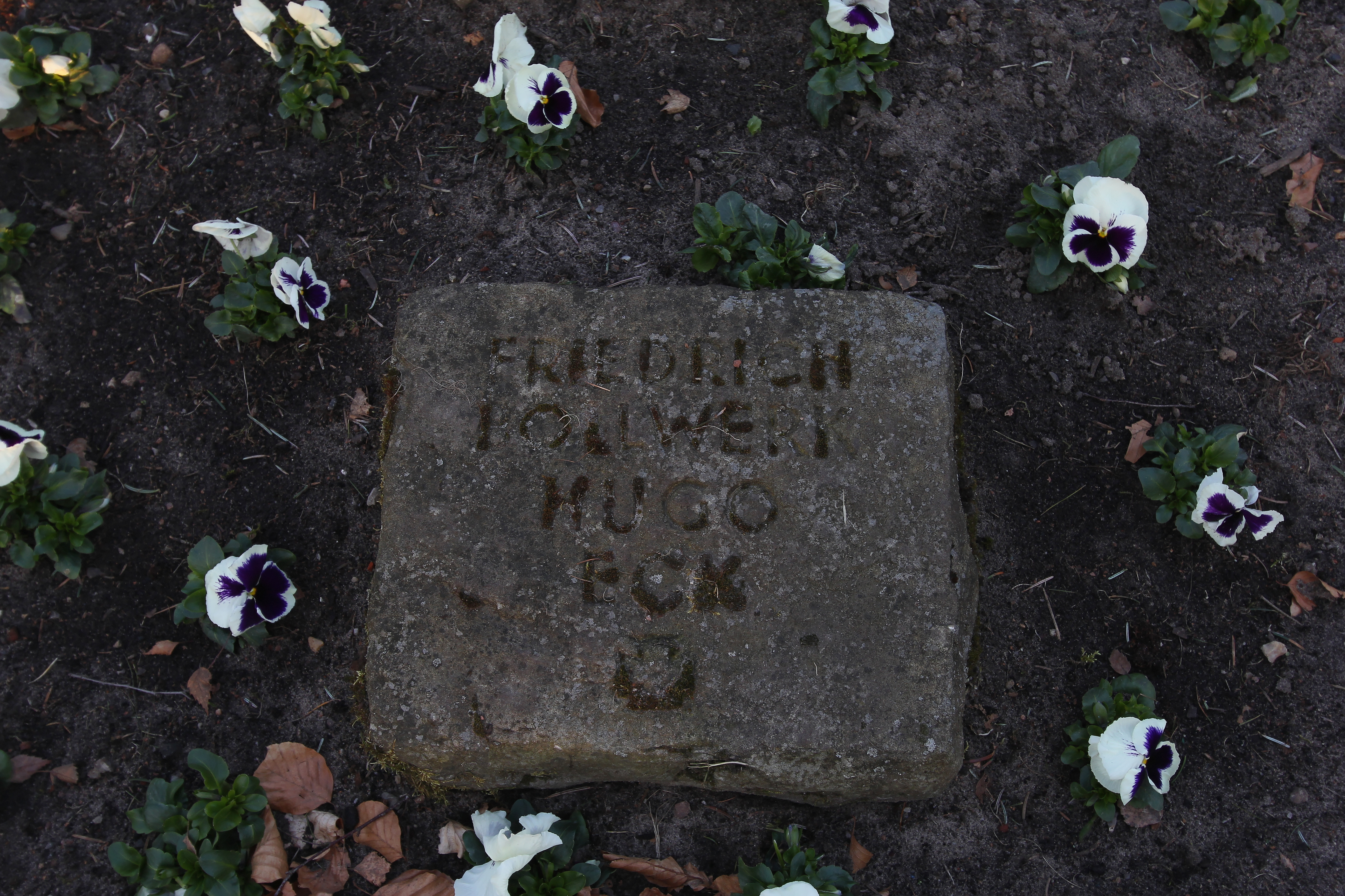 Main cemetery in Hamburg-Altona